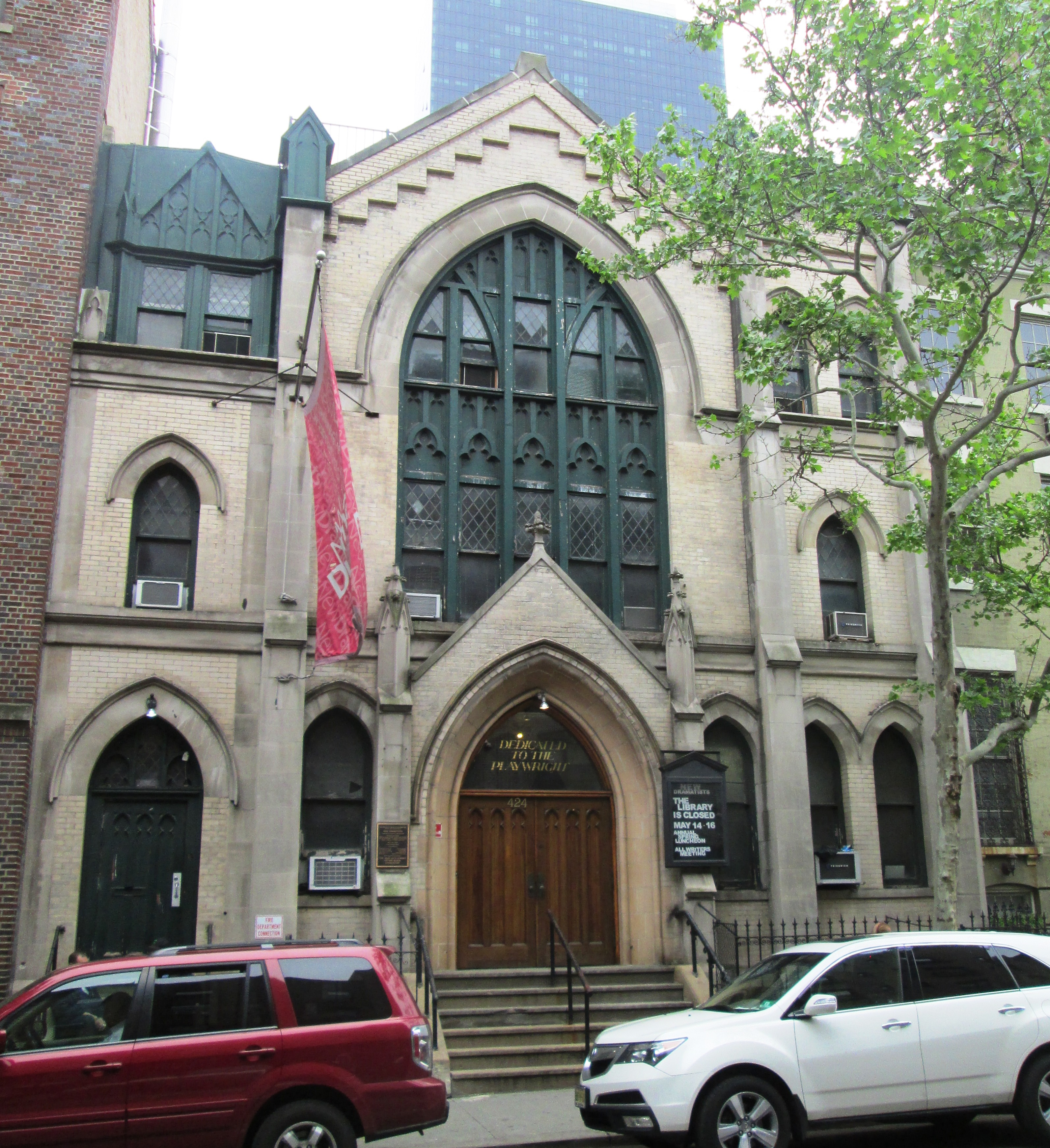 New Dramatists at 422 West 44th Street between Ninth and Tenth Avenues in the Hell's Kitchen neighborhood of Manhattan, New York City is located in a Gothic Revival church constructed in the 1880s. The building was the location in turn of St. Matthew's German Luther Church, the Lutheran Church of the Redeemer, the Lutheran Metropolitan Inner Mission Society, and, by the mid-1960s, the All People's Church. (Sources: From Abyssinian to Zion (2004), AIA Guide to NYC (5th ed.), Daytonian in Manhattan)